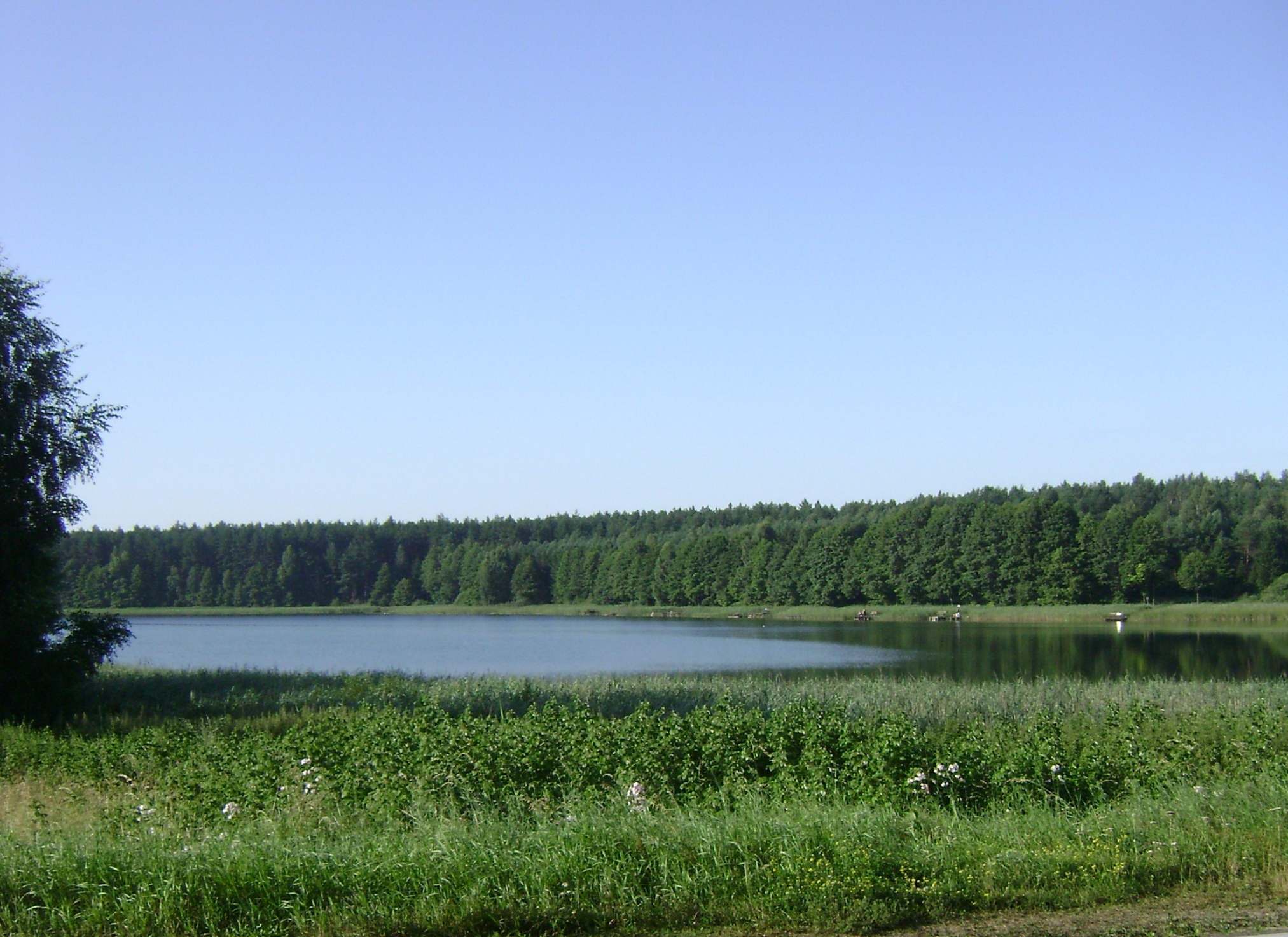 Poland. Gmina Jedwabno. Warchały Lake